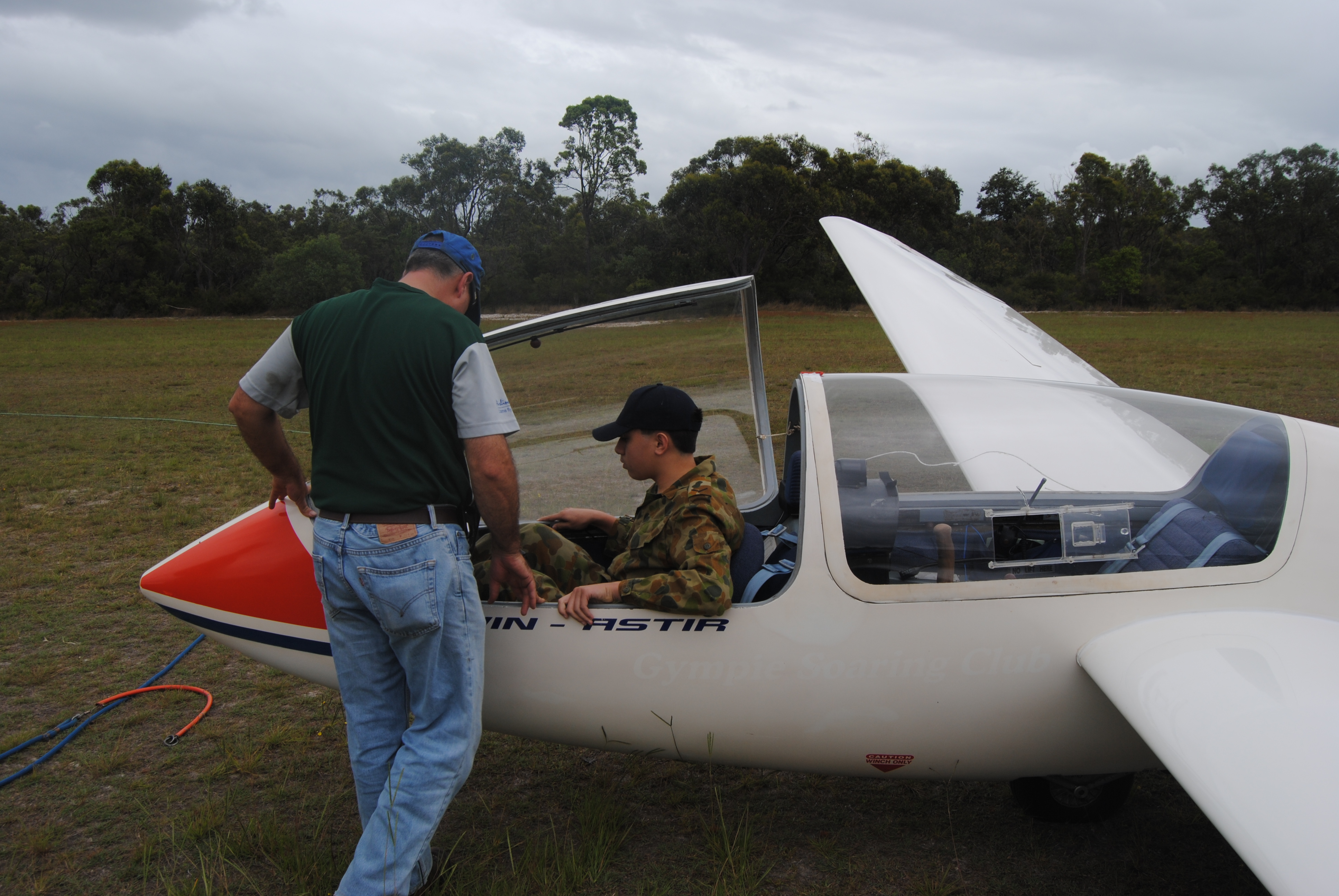 LCDT Ben Bishop in a glider 2010